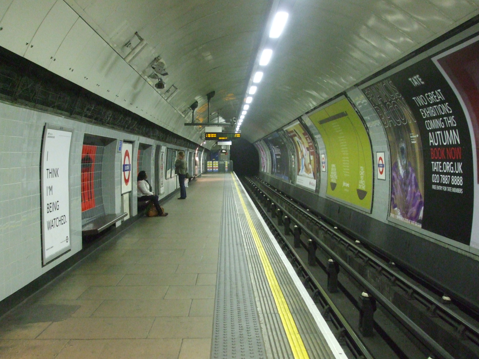 Euston tube station Northern line Bank branch northbound platform looking south